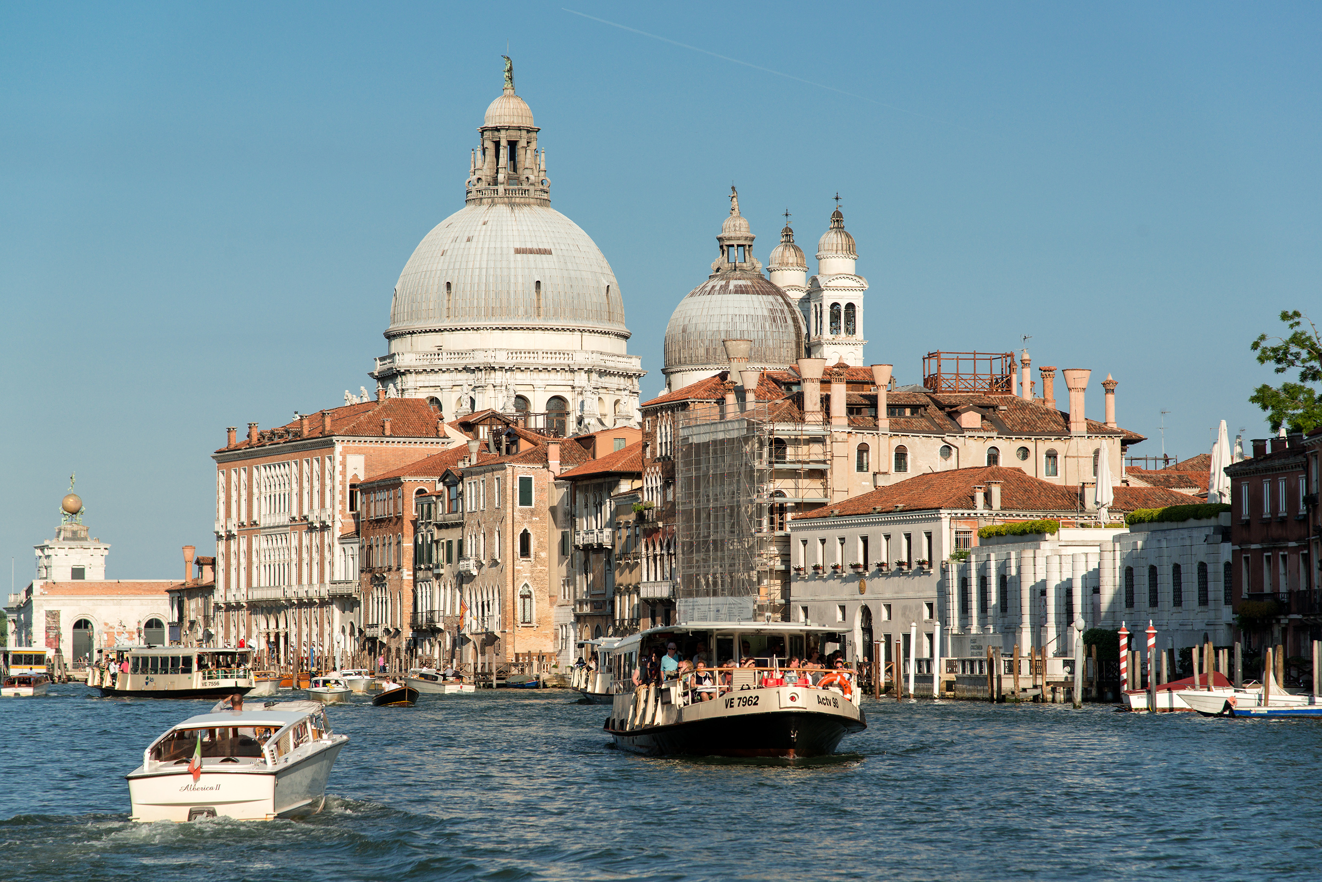 A vaporetto and other traffic on the Canal Grande, Venice, Italy